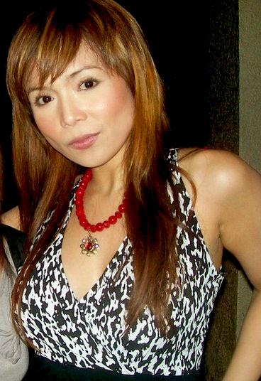 Nina backstage after performing at Hard Rock Cafe on March 12, 2011.